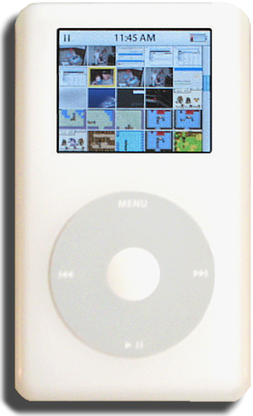 Cleanup #1 of iPod 4G Image For Wikipedia Graphics Lab More explanation by original author: "After I took the original image (link below), the Graphics to Improve lab asked me to take more with better screens. This is why the screen on the finalized picture is different than the original. I, however, am the original artist for both." -AquaStreak